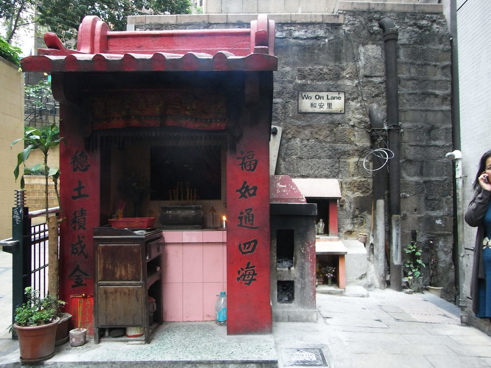 Temple dedicated to the Sam Yi Gwan, or Three Righteous Kings, in Wo On Lane, in Central, Hong Kong. Article: [1]